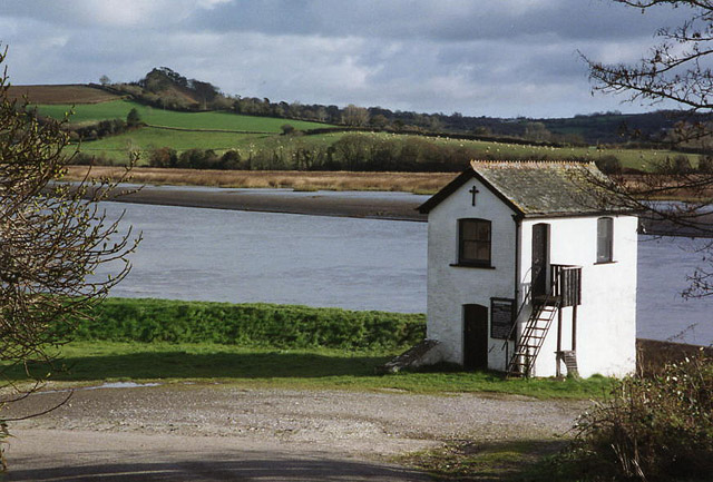 St Dominick: Halton Quay chapel. The quays along the lower reaches of the Tamar were served by paddle steamers as well as sailing barges in the 19th century